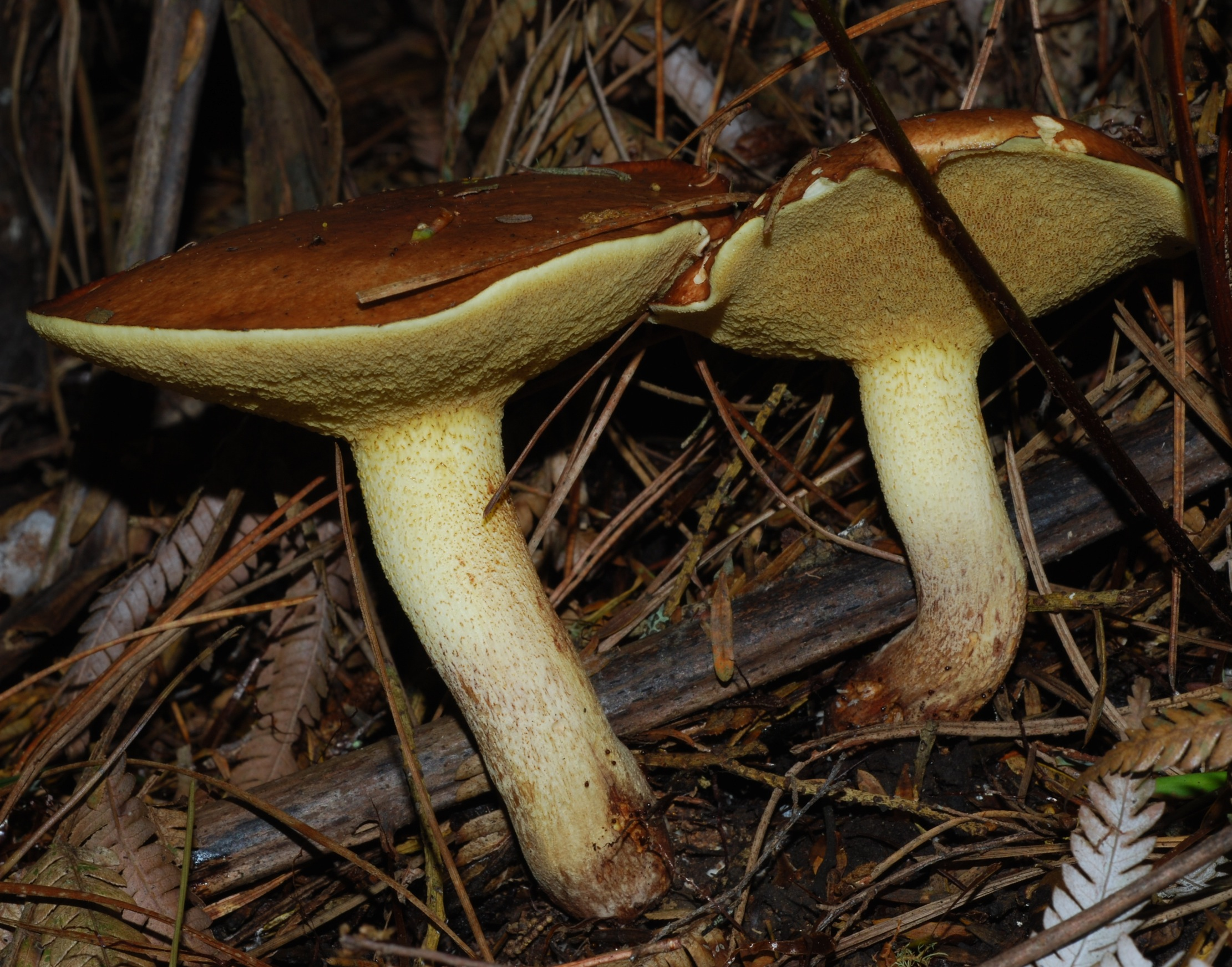 Suillus granulatus ((L.) Roussel) Location: Auckland, New Zealand Notes: Fruiting under Pinus radiata and Leptospermum scoparium.